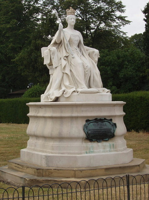 Queen Victoria, statue in Kensington Gardens The statue of the queen on her accession to the throne in 1837 is by her daughter Princess Louise. On the Broadwalk, in front of Kensington Palace where she was born.